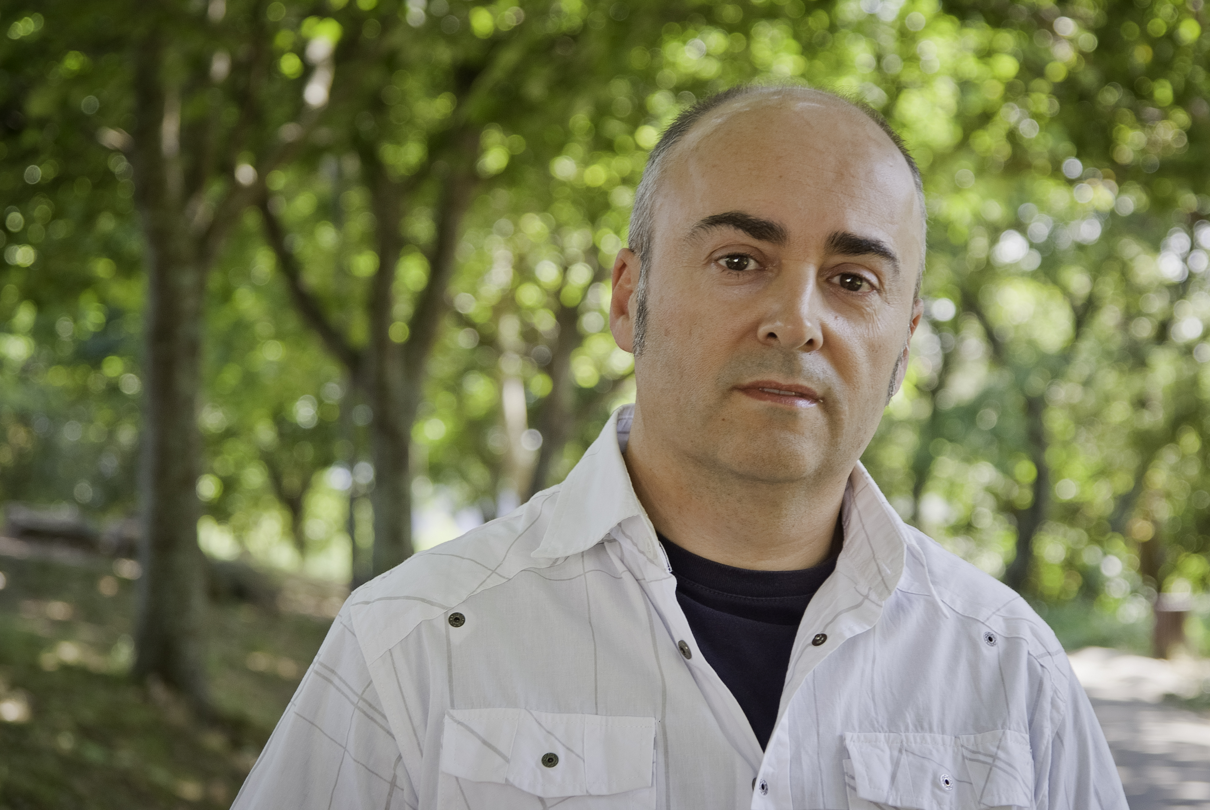 Photograph of Antón Riveiro Coello